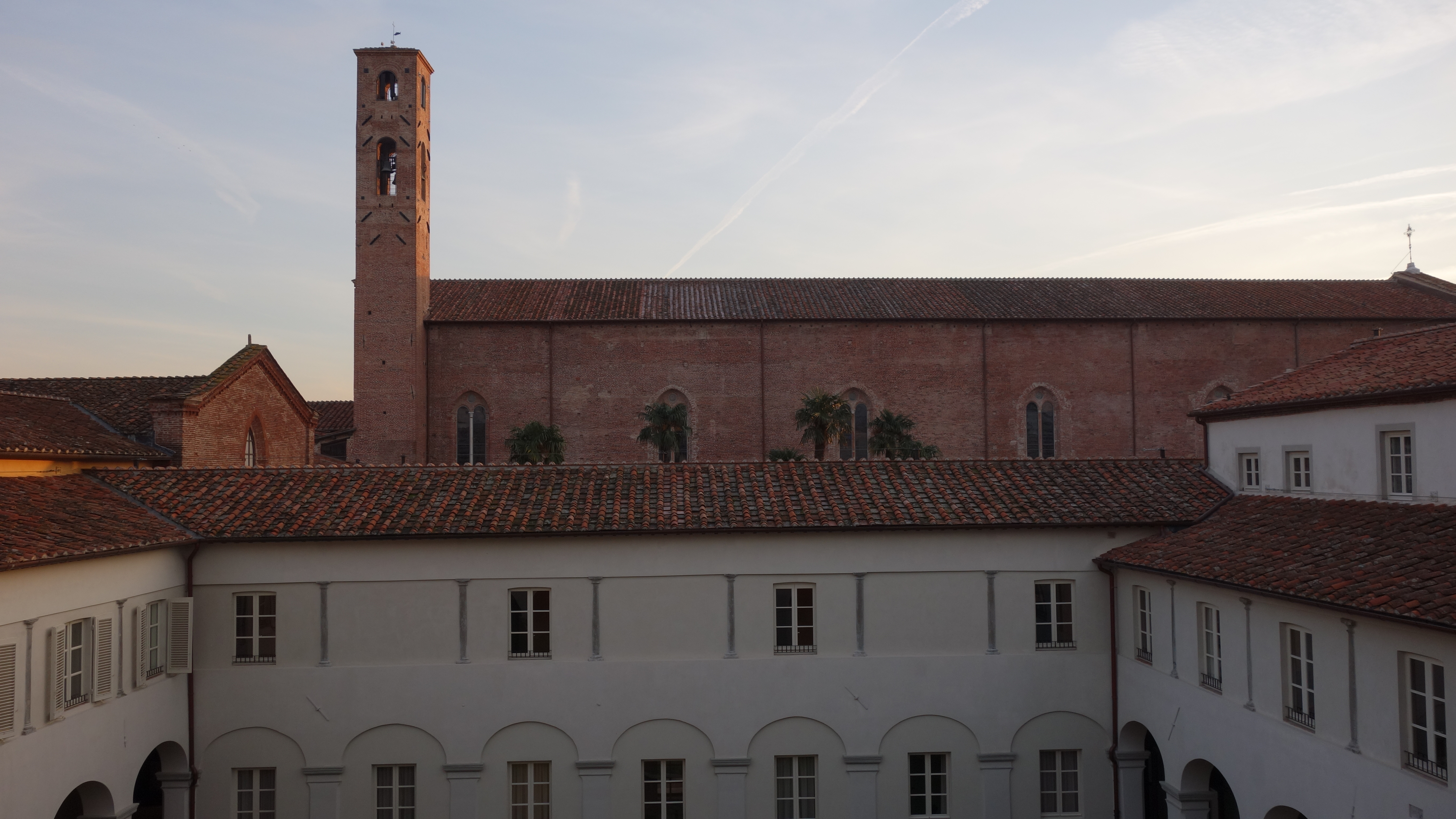 IMT Lucca San Francesco Campus Image 1